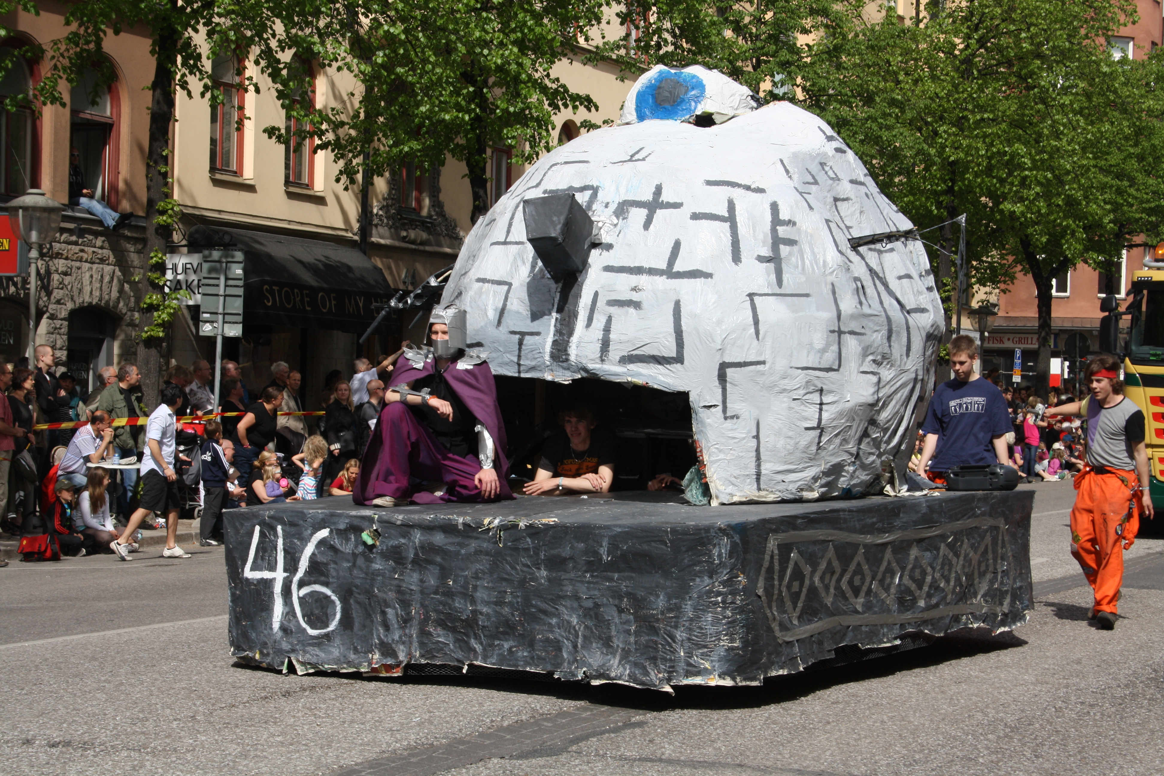 A replica of the Technodrome from TMNT during Quarnevalen 2011. Personen i lila längst fram är utklädd till Shredder (Strimlaren).